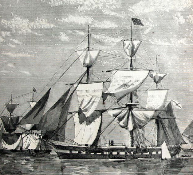 The large screw frigate Alexander Neuski of the Russian Imperial Navy, circa 1863. Detail of an illustration in the October 17, 1863 Harpers Weekly. "The Russian Fleet, Commanded by Admiral Lisovski, Now in New York Harbor"